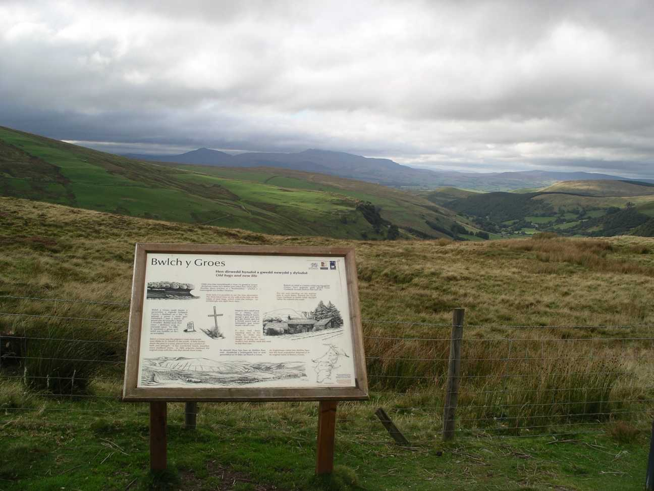 View from the Bwlch y Groes pass, North Wales Author: User:Velela. Location:Bwlch y Groes September 07 2005 Source: Personal photograph taken by Author Technical data: Pentax Optio555 digital camera.